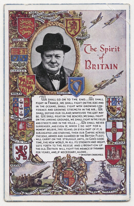 British propaganda manifesto World War II